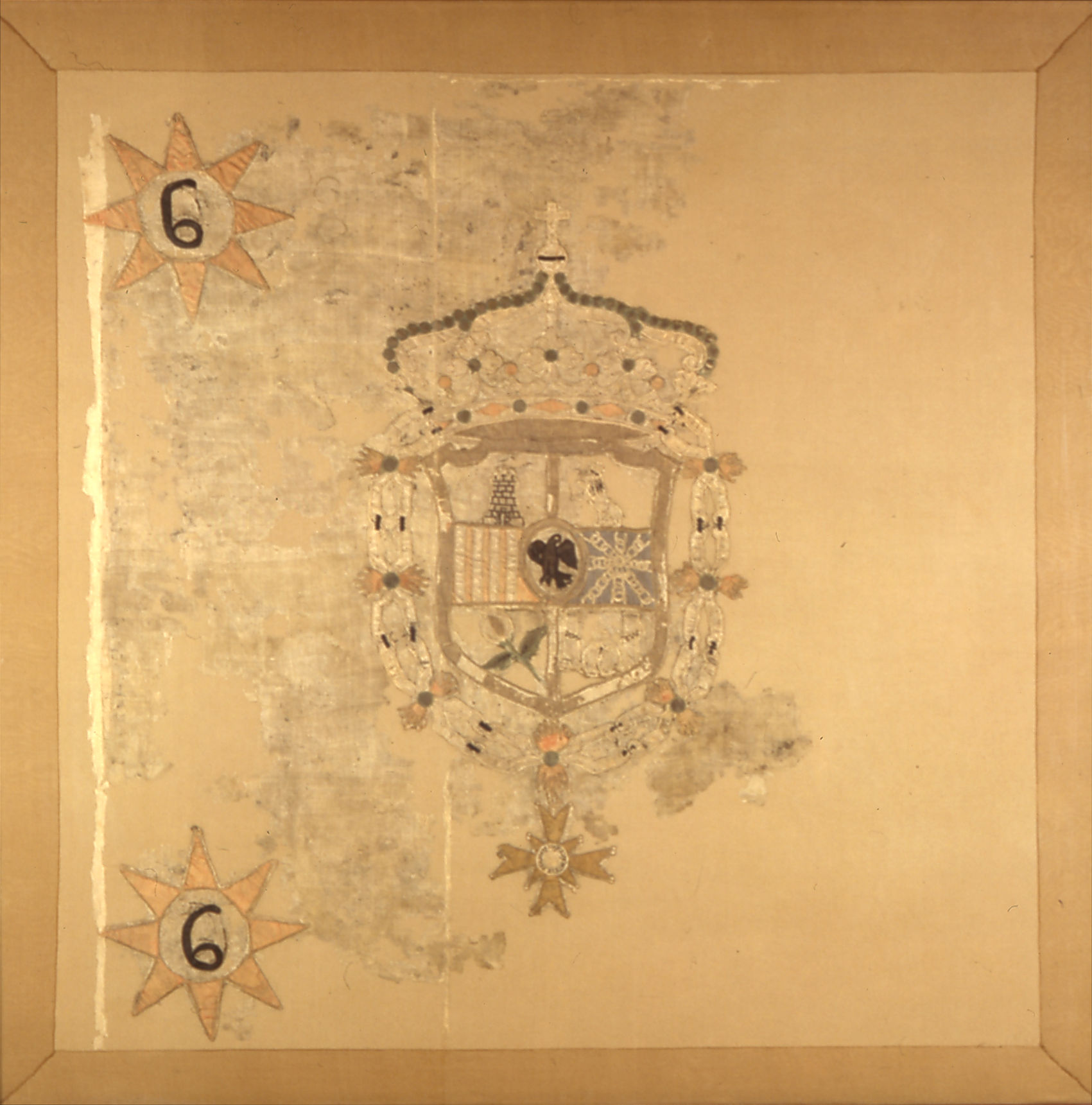 Flag of the 6th Line Infantry Regiment of the Spanish Army of Jose Bonaparte